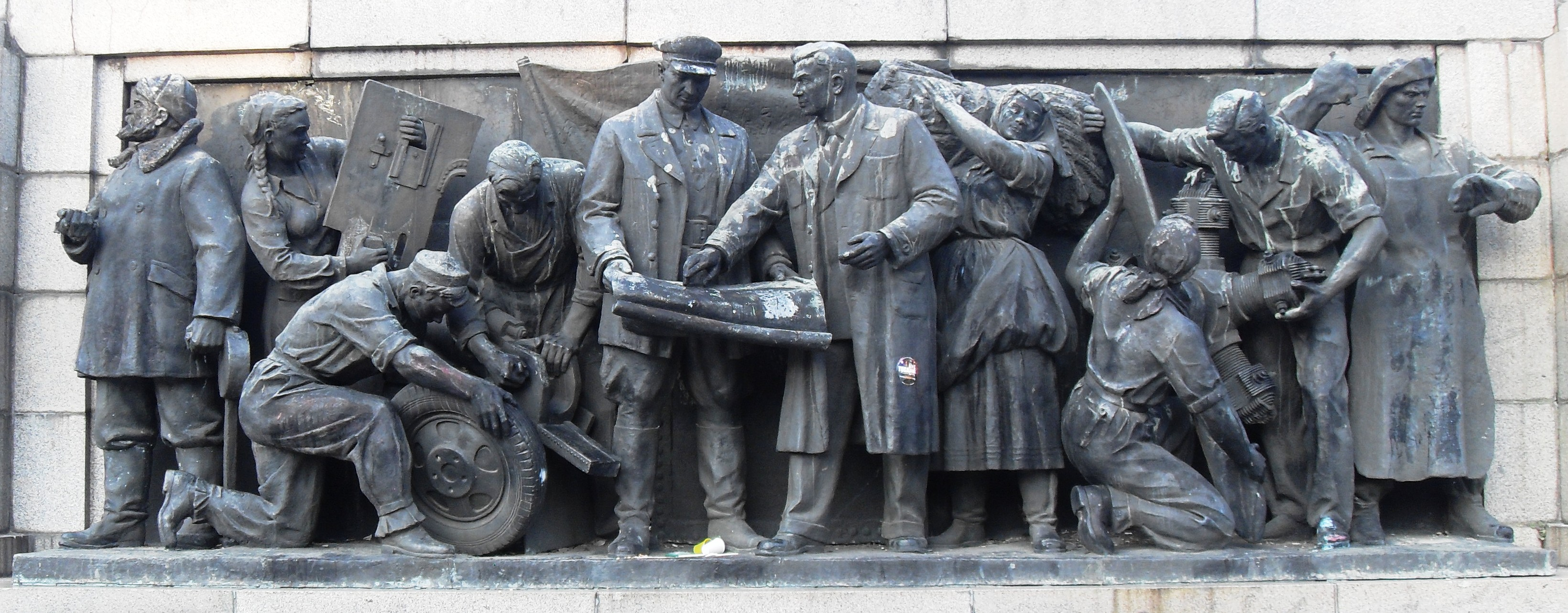 The Monument to the Soviet Army (Bulgarian: Паметник на Съветската армия, Pametnik na Savetskata armia) is a monument located in Sofia. There is a large park around the statue and the surrounding areas. It is a popular place where many young people gather. The monument is located on Tsar Osvoboditel Boulevard, near Orlov Most and the Sofia University. It represents a soldier from the Soviet Army, surrounded by a woman and a man from Bulgaria. There are other, secondary sculptural compositions part of the memorial complex around the main monument. The monument was built in 1954.